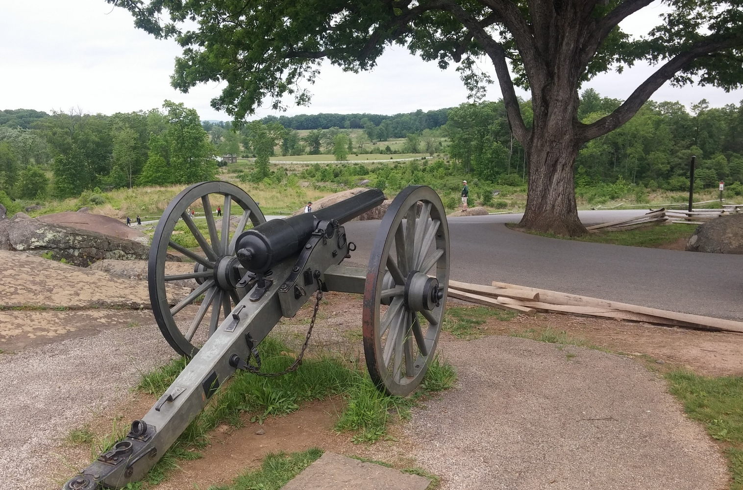 The monument to the Fourth New York Independent Battery is south of Gettysburg on Sickles Avenue at the Devil’s Den. The battery was commanded at the Battle of Gettysburg by Captain James E. Smith. It brought 135 men to the field serving six 10-pounder Parrott Rifles.